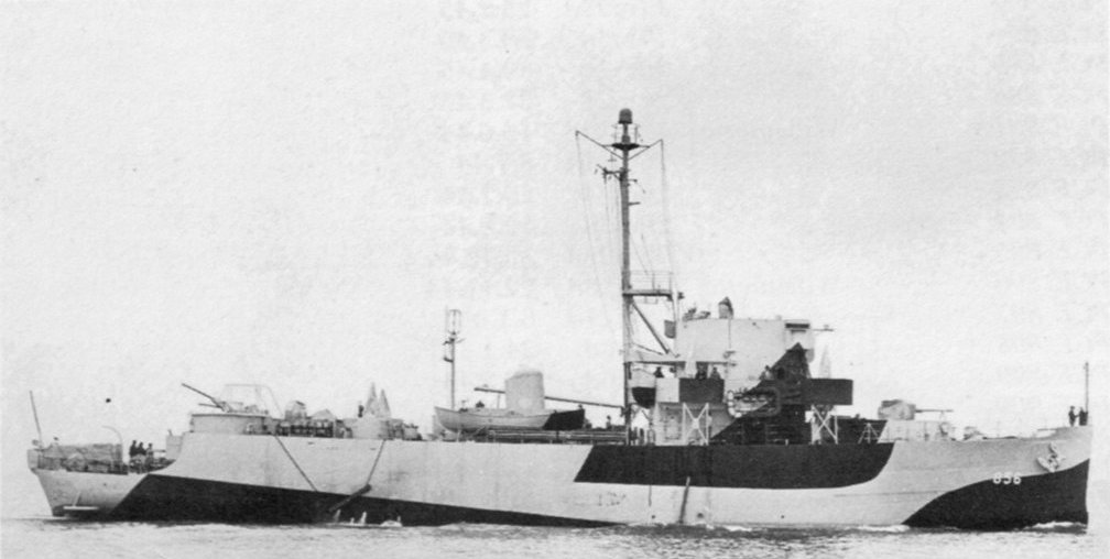 USS PCE(R)-856 in Wartime Camo.